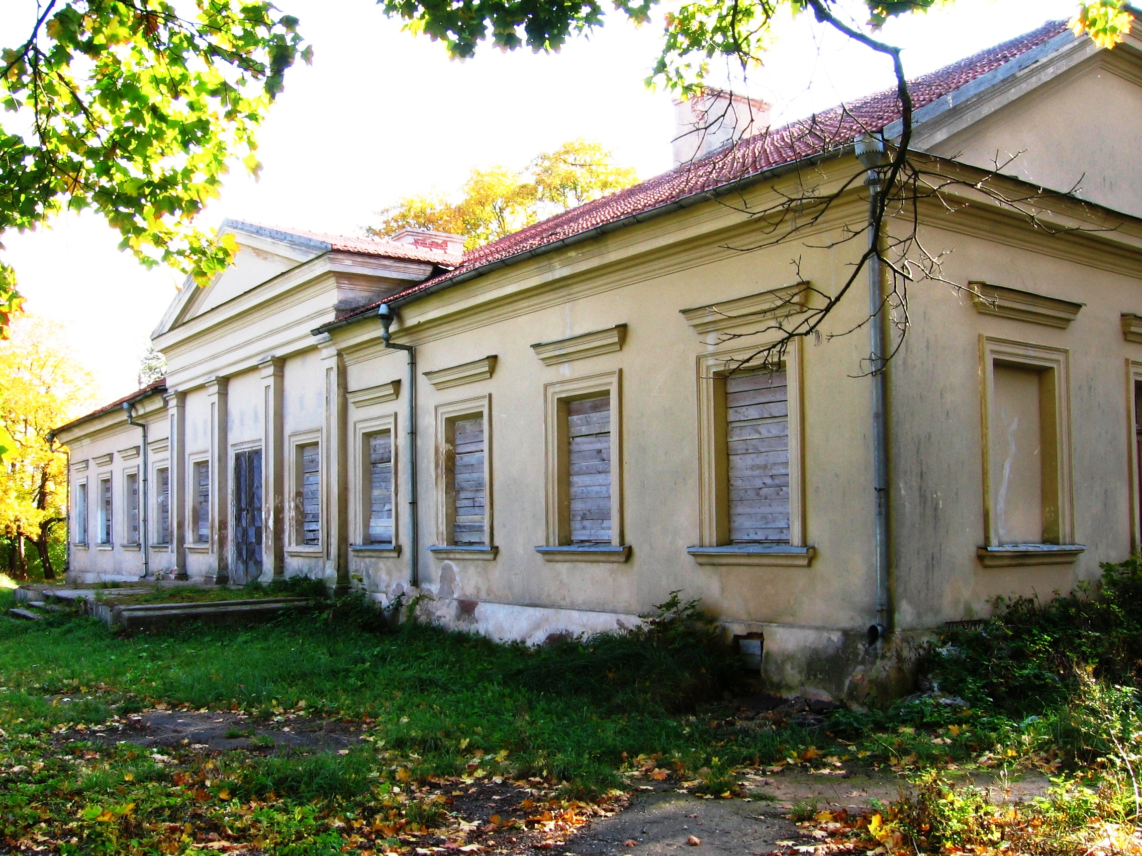 Pavermenys Manor, Kedainiai district, Lithuania